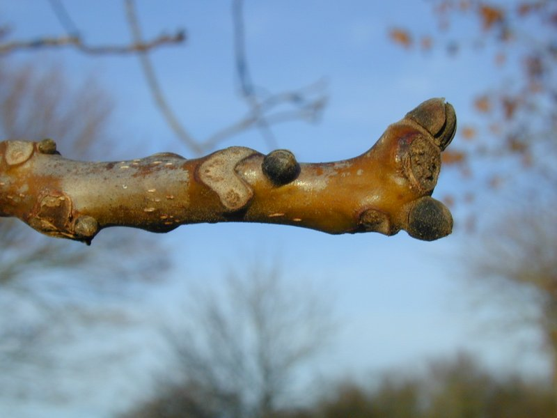 Walnut (Juglans regia) bud